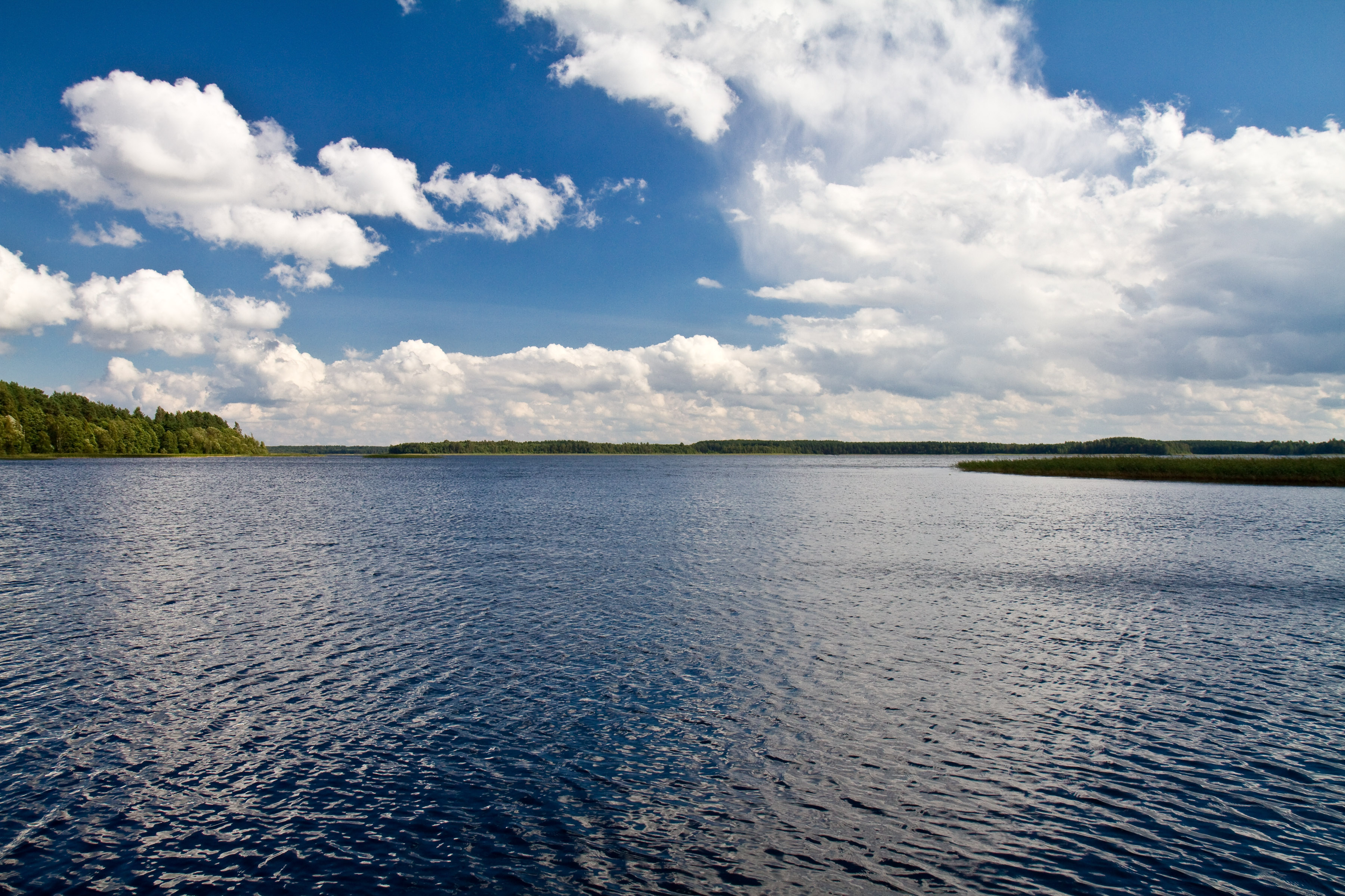 Strusta Lake. Brasłau district, Viciebsk province, Belarus.